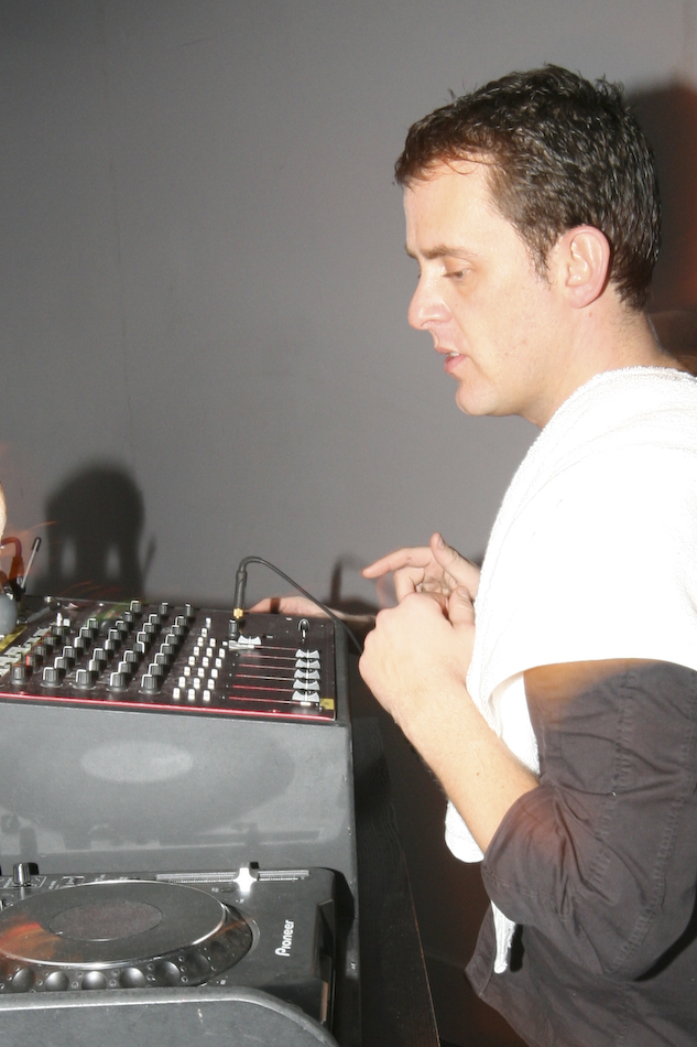 Scott Mills